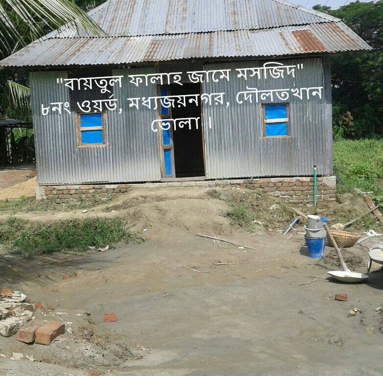 this is a mosque